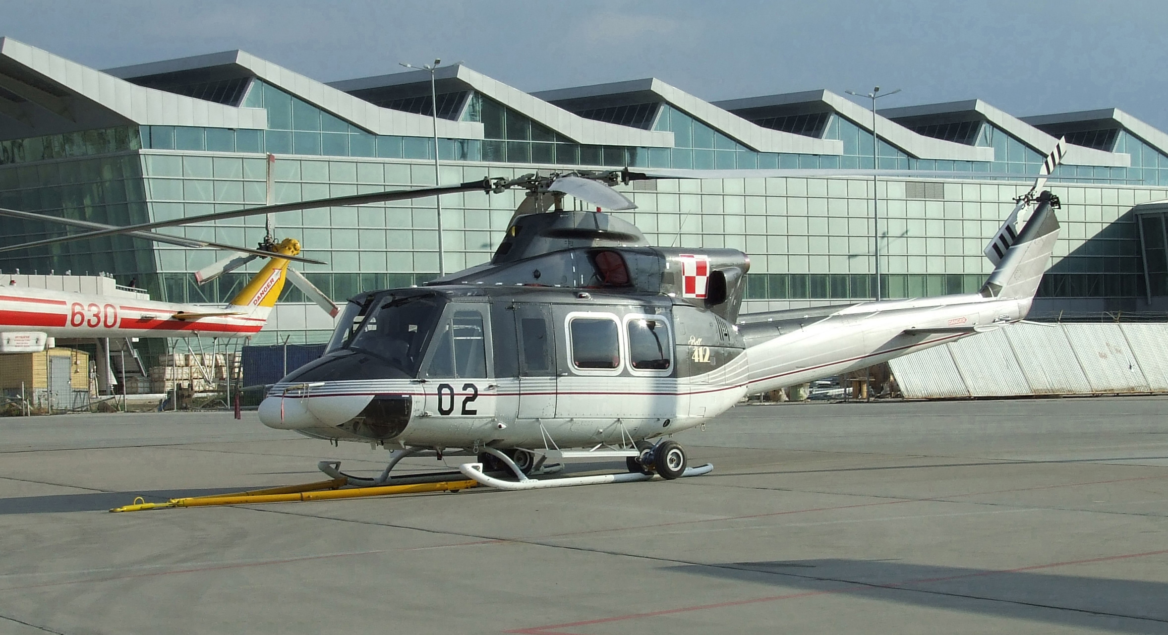 Bell 412HP, polish government version, Warszawa Okęcie Airport